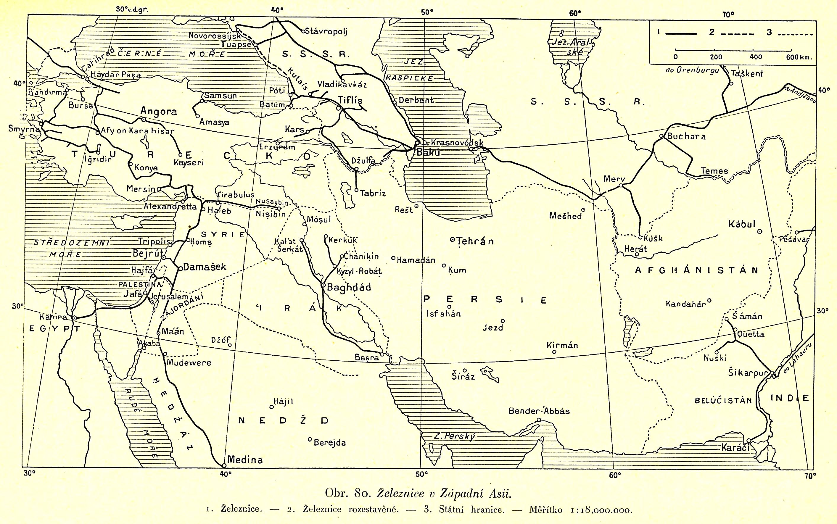 Map of railways in West Asia in the beginning of 20th century. The descriptions are in Czech.